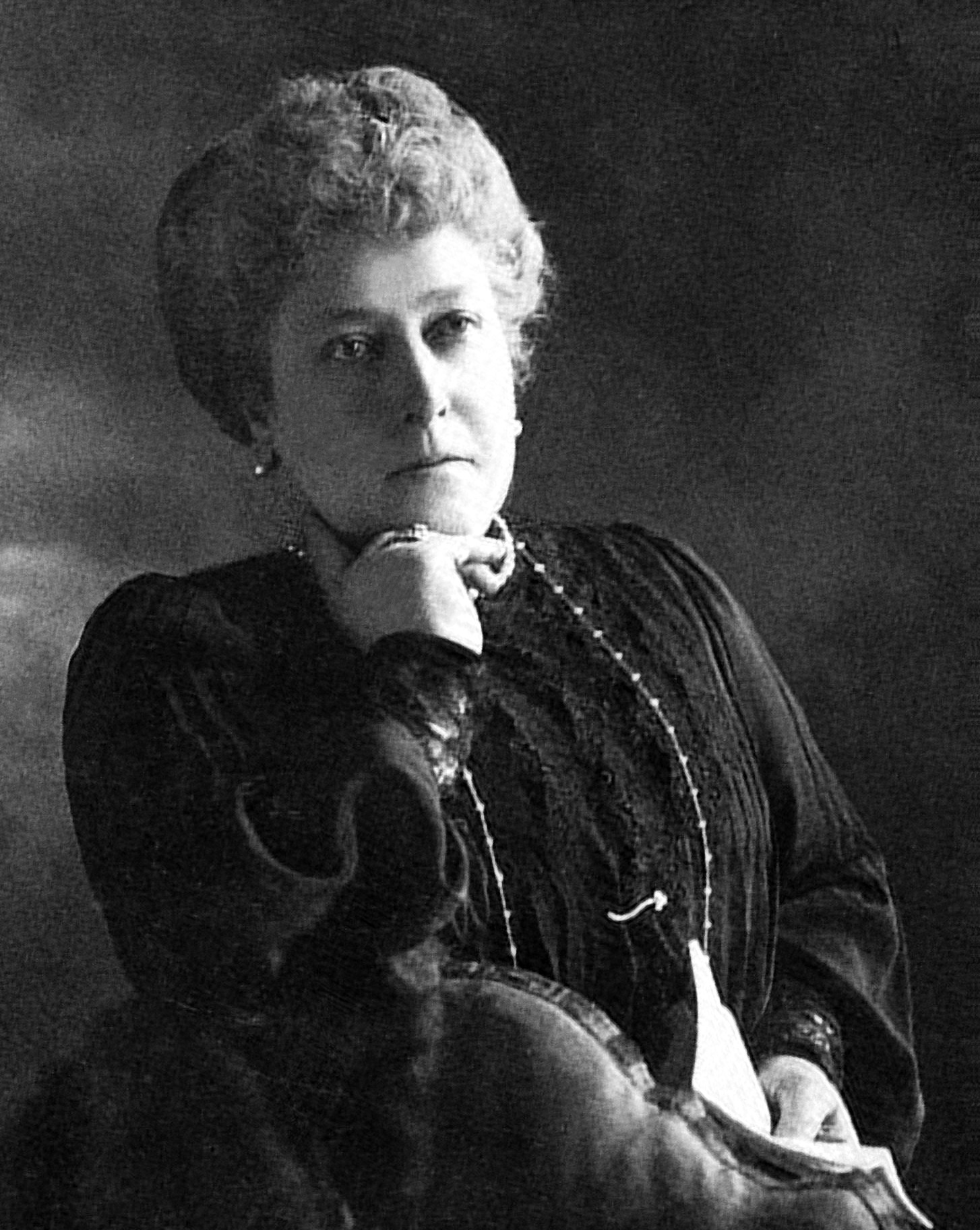 Princess Helena (Princess Christian of Schleswig-Holstein; 1846-1923)